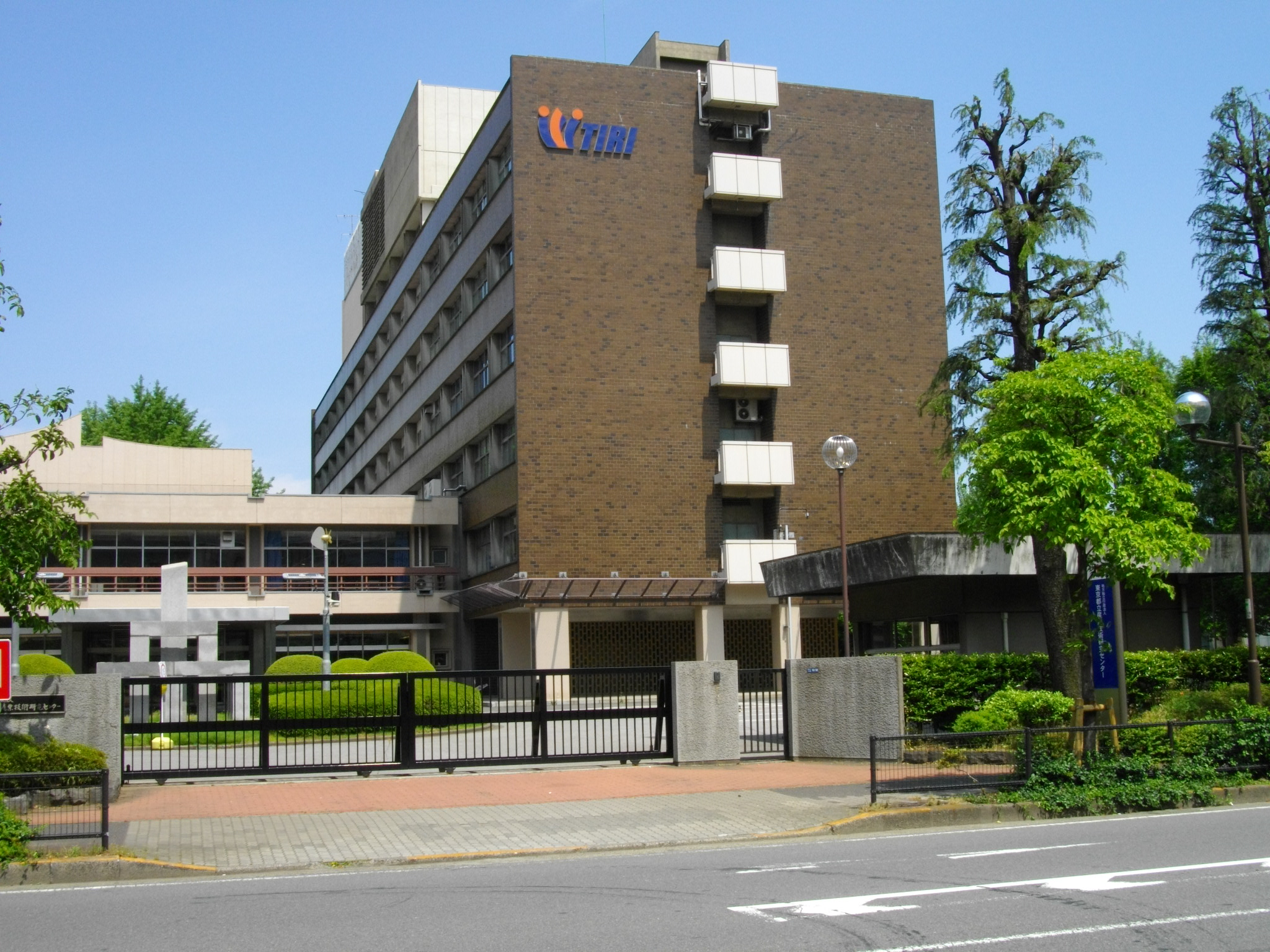 Tokyo Metropolitan Industrial Technology Research Institute